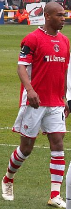 Marcus Bent. Image cropped from original at flickr.